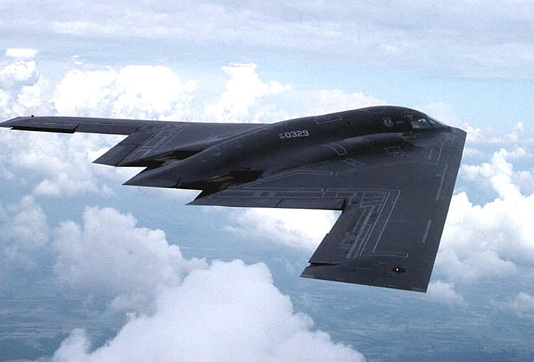 B-2A Spirit, photo by MSgt. Rose Reynolds. Primary Function: Multirole strategic bomber. Contractors: Northrop B-2 Division (prime contractor), Boeing Military Airplane Co., LTV Aircraft Products Group and General Electric Aircraft Engine Group. Speed: High subsonic. Dimensions: Wingspan 172 ft., length 69 ft., height 17 ft. Range: Intercontinental, unrefueled. Armament: Nuclear (short-range attack missiles, gravity weapons) and conventional. Crew: two, with space for a third.. U.S. Air Force photo reproduced with permission. Quote from af.mil: Information presented on Airforce Link is considered public information and may be distributed or copied. Use of appropriate byline/photo/image credits is requested. Picture prepared for Wikipedia by Adrian Pingstone in August 2003.